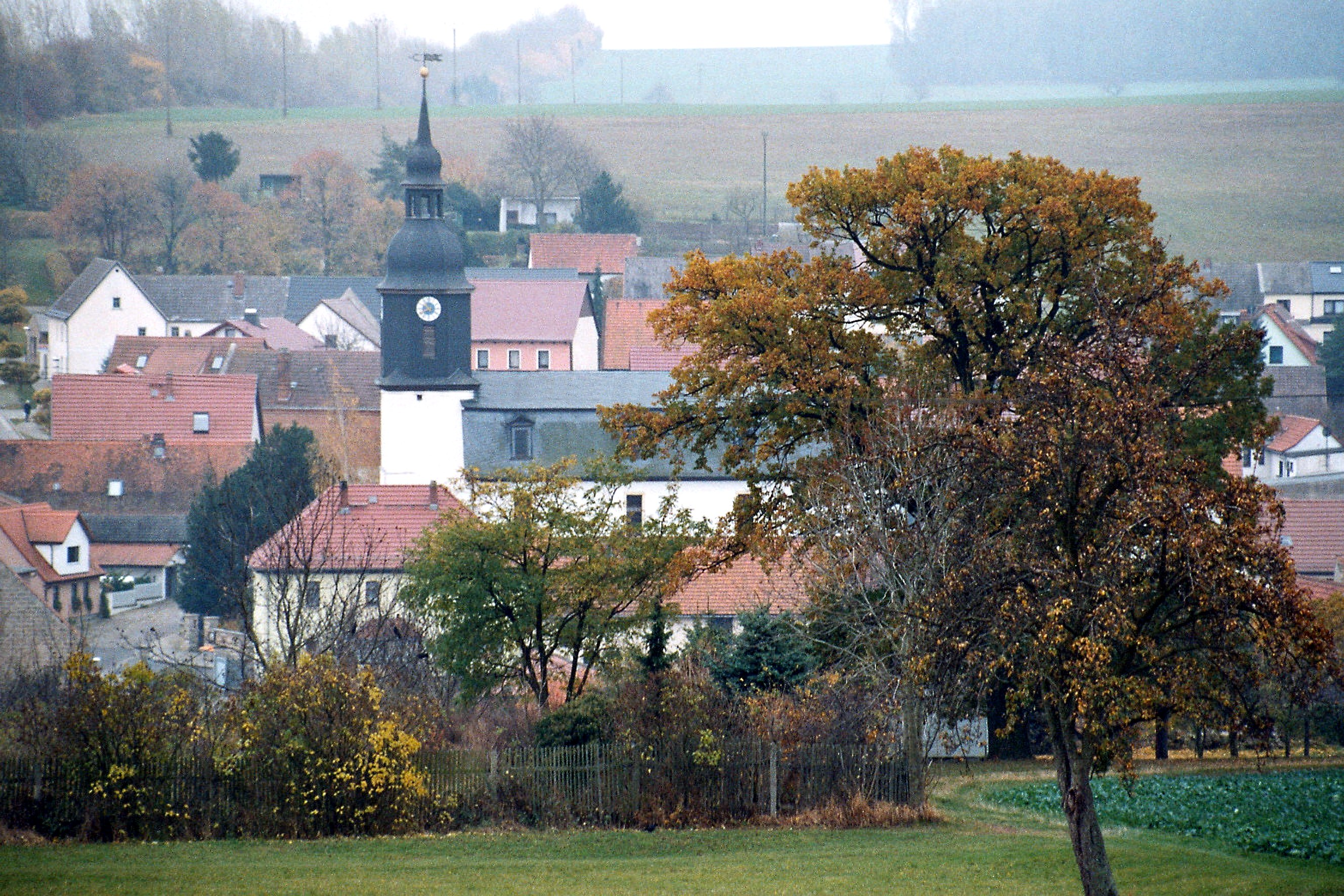 Pfiffelbach- View to the village church (telephoto)